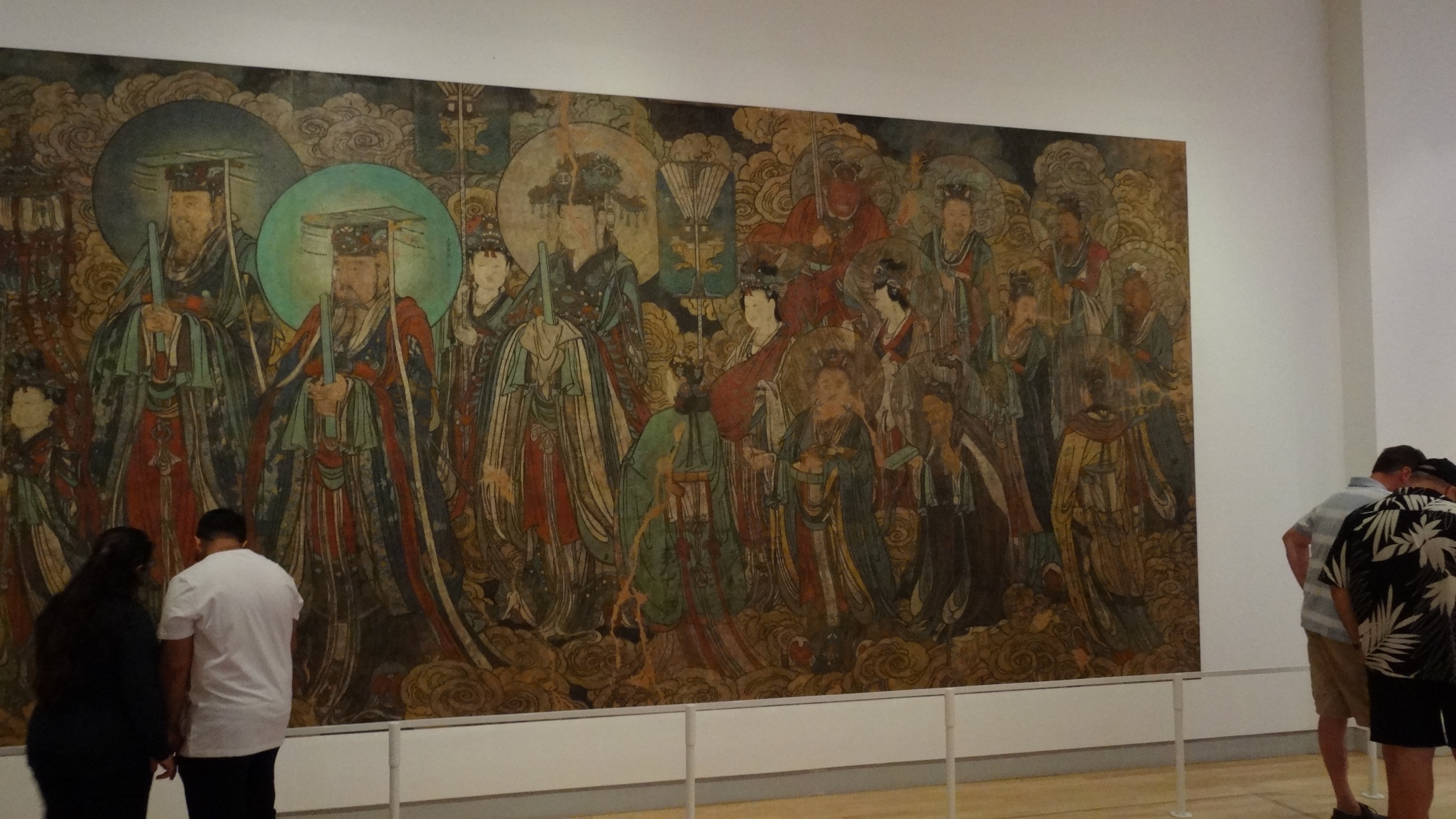 painted mural panel